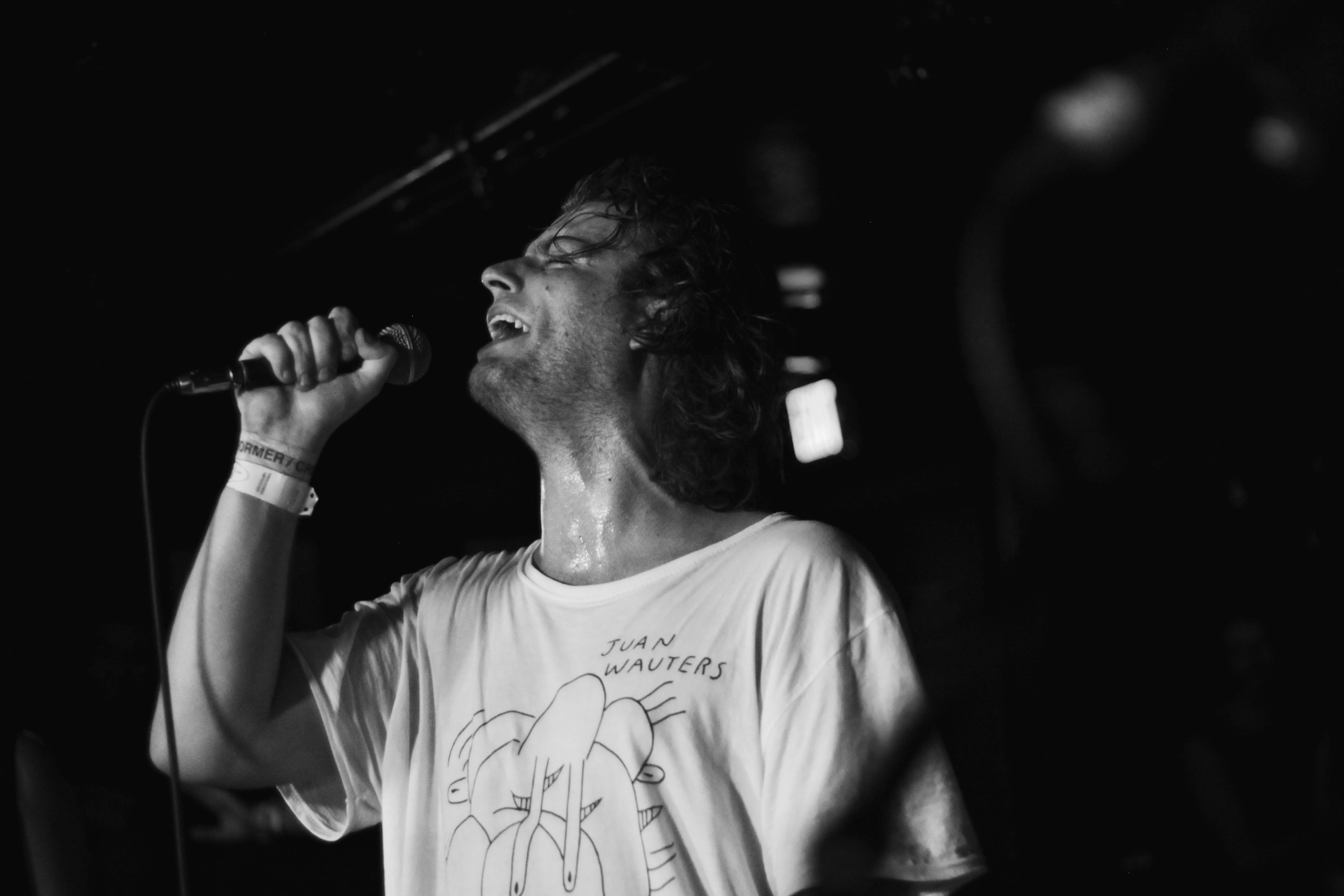 Illegally Blind presents: Mac Demarco, Amen Dunes, Juan Wauters, and Vundabar at the Middle East Downstairs April 7th, 2014. ©2014 Mona Maruyama